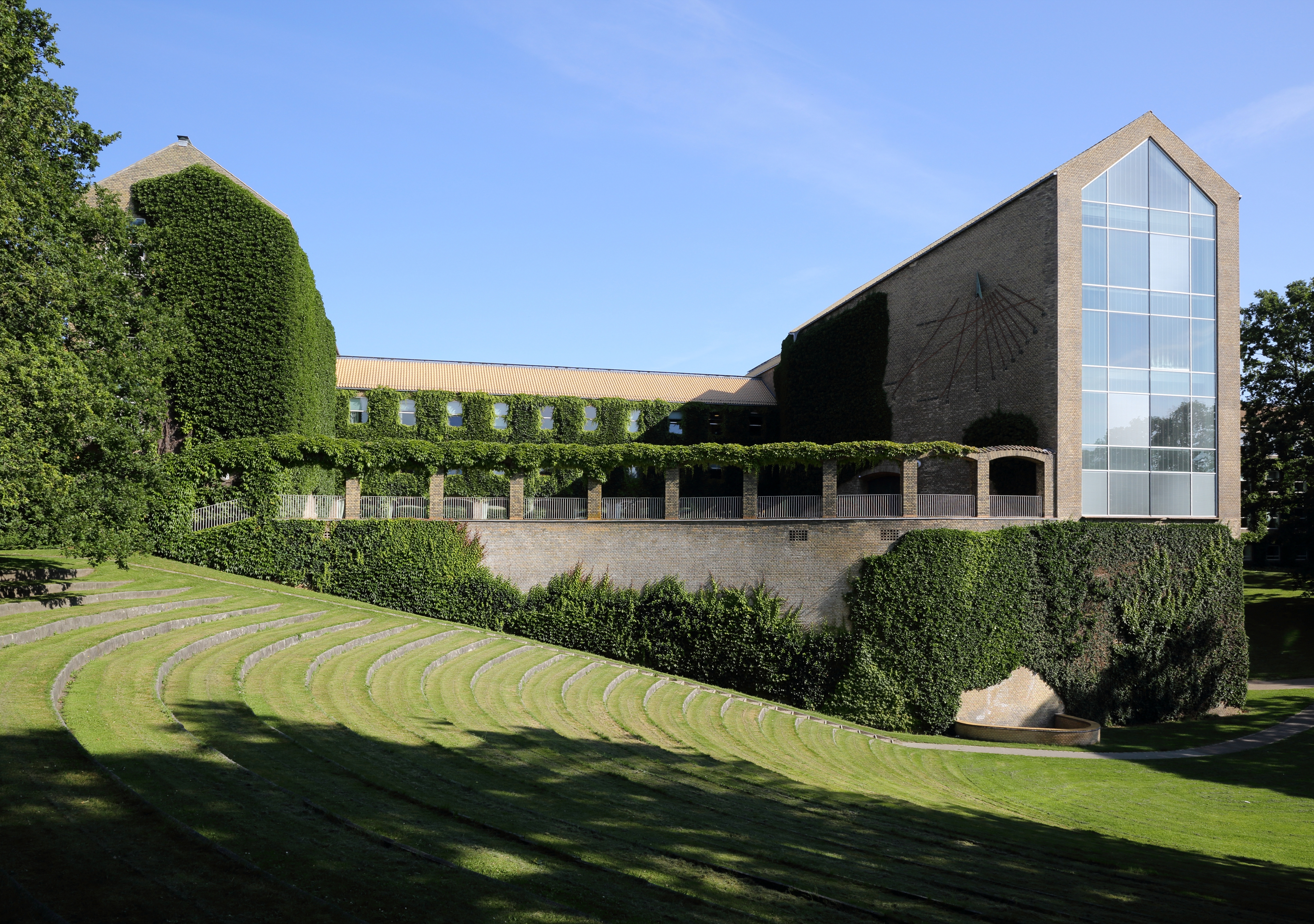 Aarhus University's main building as seen from the park